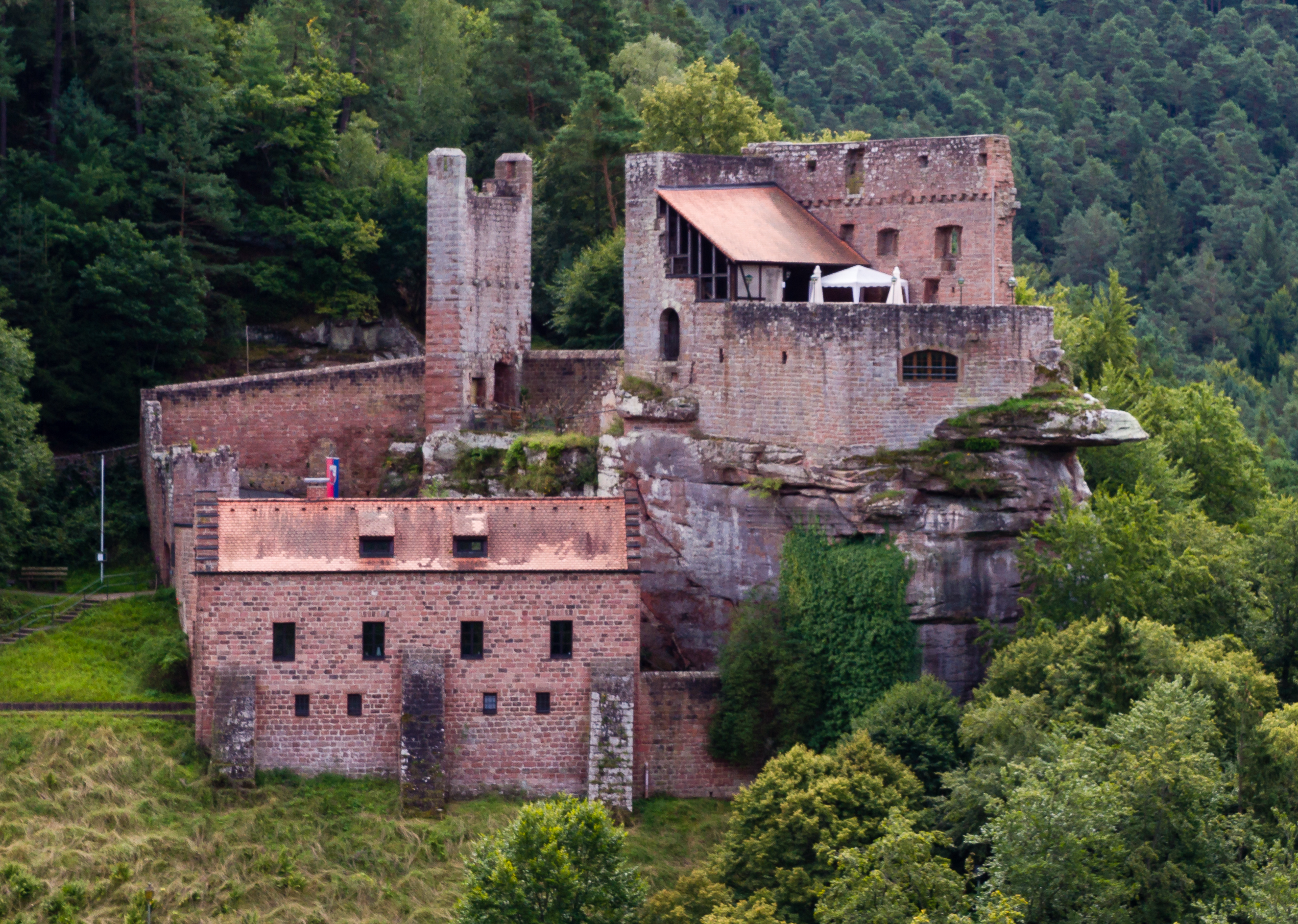 Designation: Monument zone castle ruin Spangenberg Location: In Elmstein Valley south of Erfenstein (high above the Speyerbach, on the northern slope of the Schlossberg on an overhanging rock face). Place: Lachen-Speyerdorf, Neustadt an der Weinstraße, Rhineland-Palatinate Construction time: First mention 1317 Description: Vassal castle of the Bishopric of Speyer, 1470 destroyed, new pawning 1480 and reconstruction. Decline since the destruction in the 17th century, 1926/27 measures at the upper castle, since 1972/73 gradual expansion of the terraced complex. Parts of the upper castle has been preserved, little remains of the middle castle and lower castle with older tower and younger gatehouse.